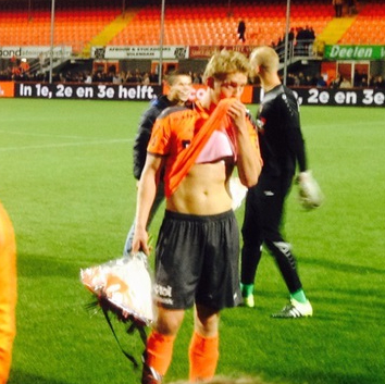 Bert Steltenpool after FC Volendam - Almere City FC